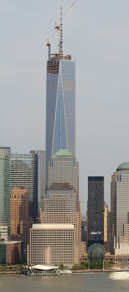 One WTC Spire Completed